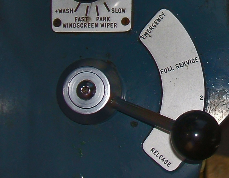 UK Electric Multiple Unit Brake Handle, showing five positions; Release, Step 1, Step 2, Full service brake and Emergency brake